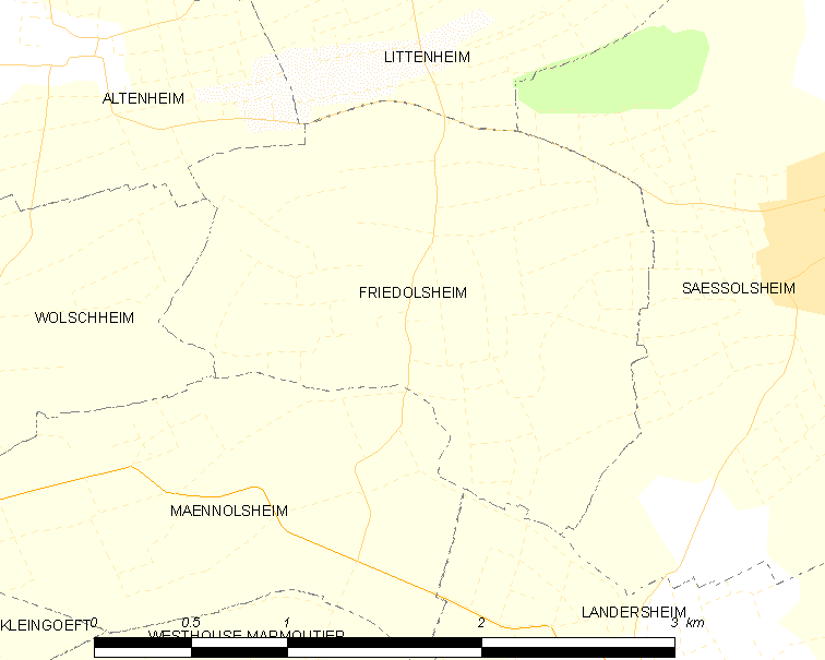 Map of French municipality